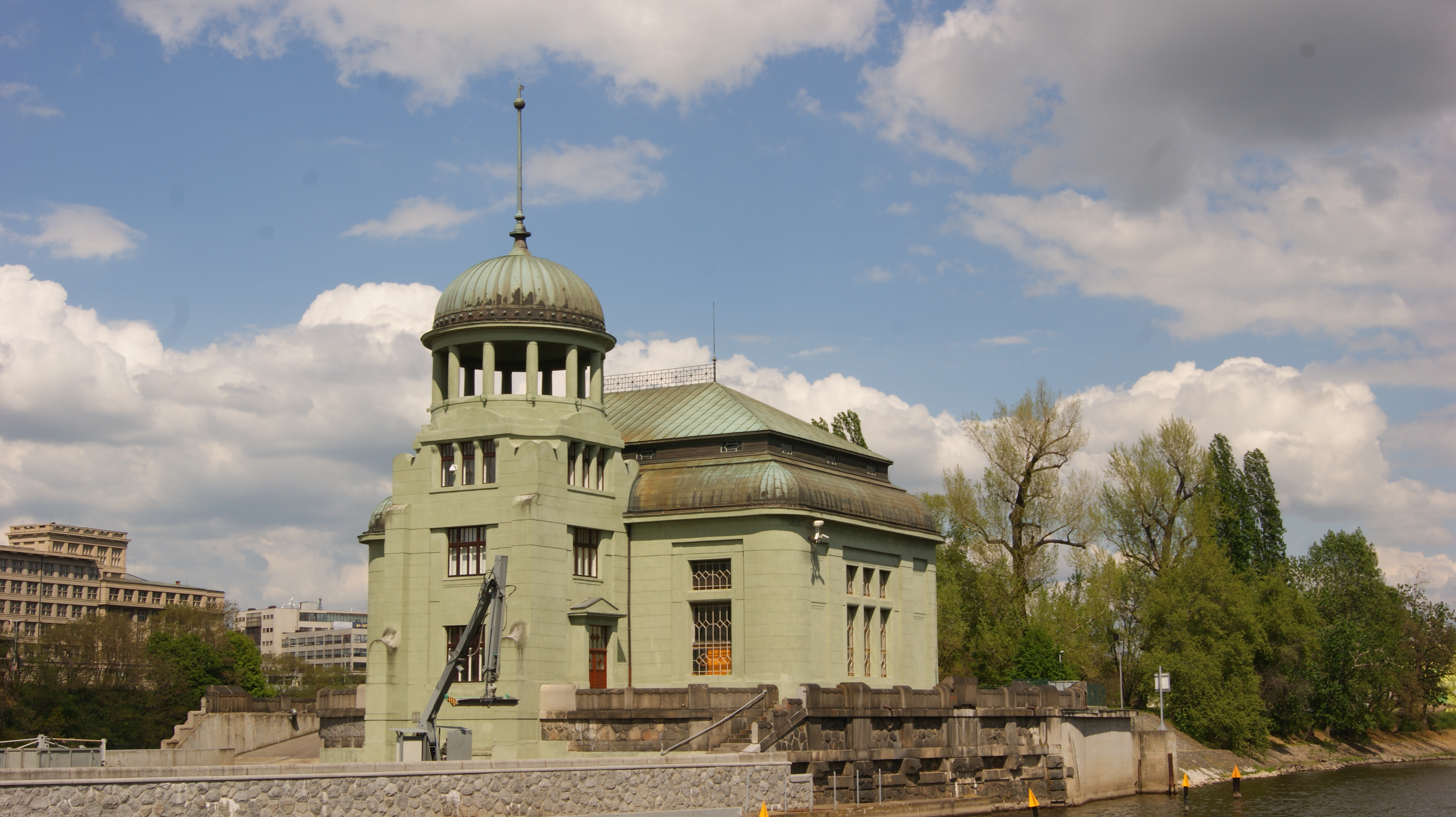 Štvanice water-power plant in Prague.